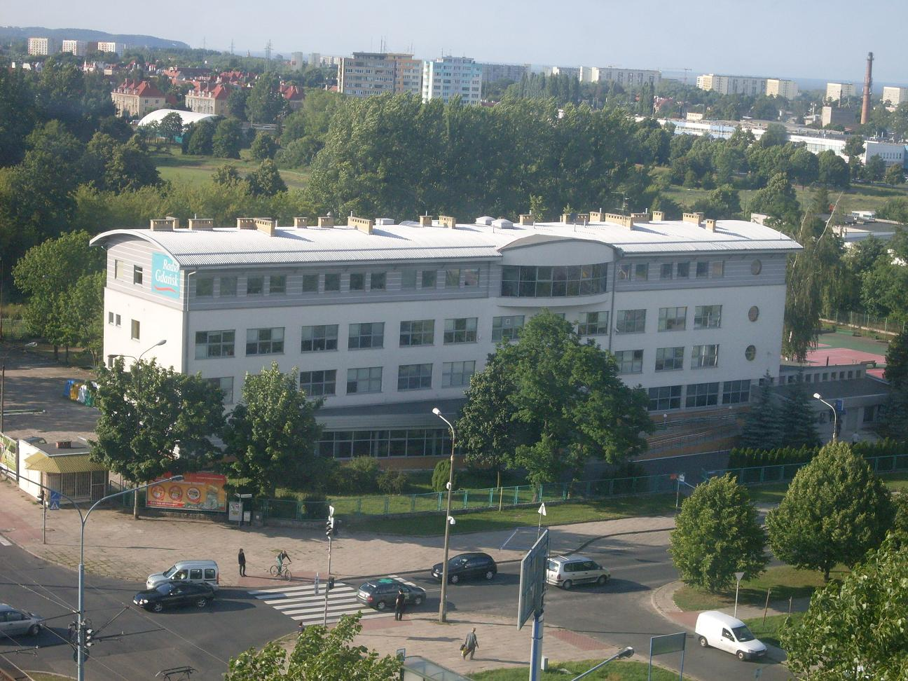 Rectorate of Gdańsk University, birds-eye. Zoom.